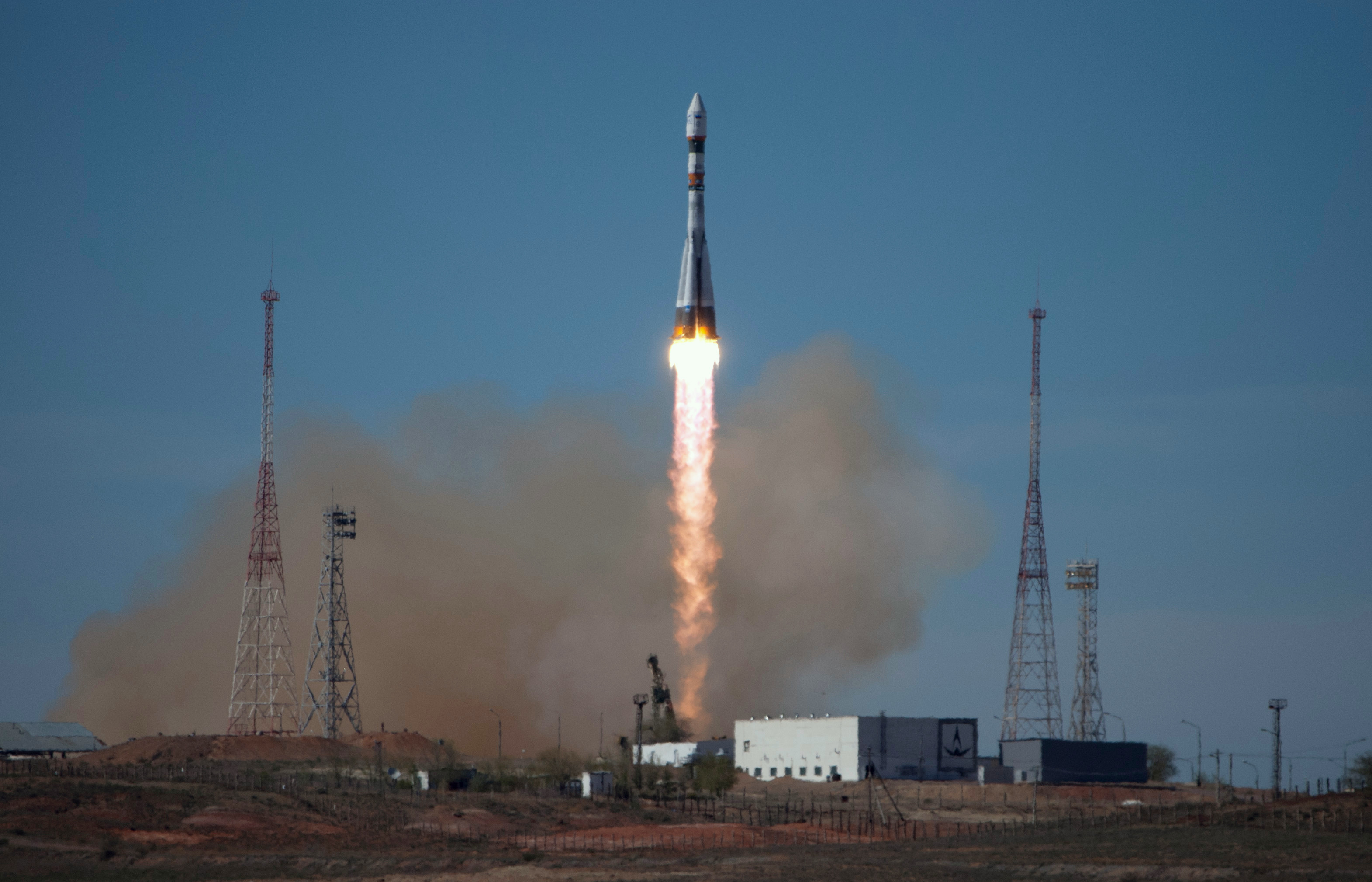 A Sojuz launches with BION-M1 and some small satellites.